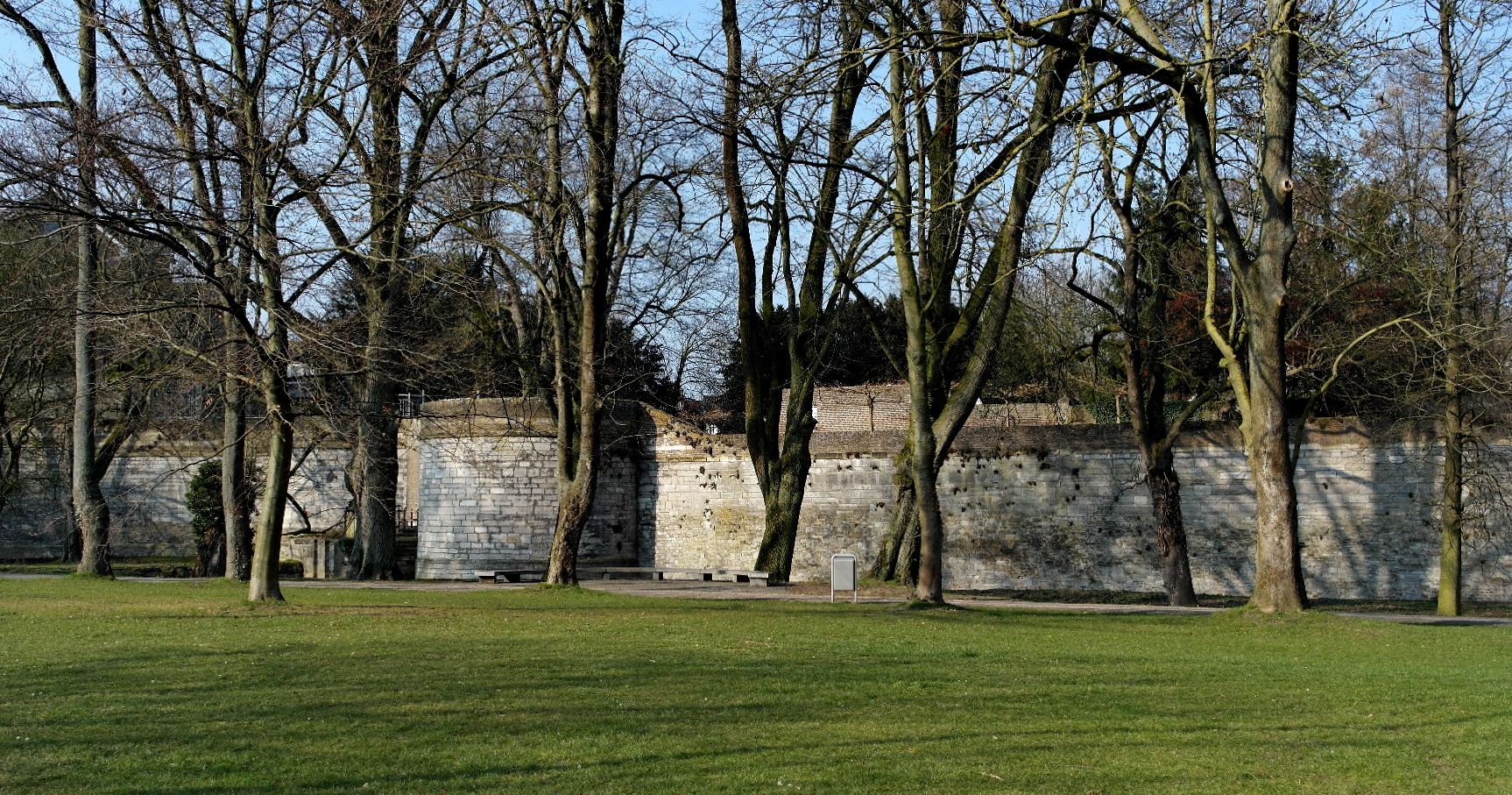 View from Stadspark of Jezuietenwal and Nieuwenhofwal, both part of the second Medieval city wall of Maastricht, the Netherlands. Between the two sections is the watergate De Reek, where the river Jeker enters the town.